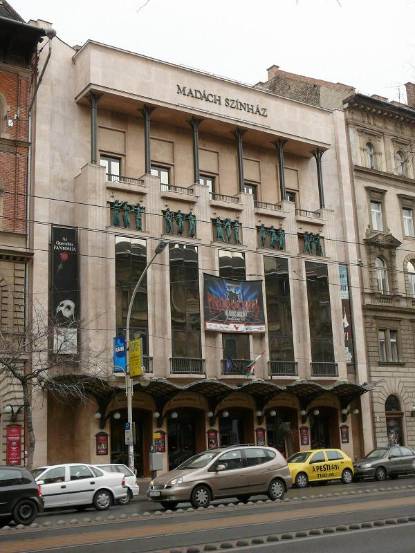 The Erzsébet Boulevard in Budapest